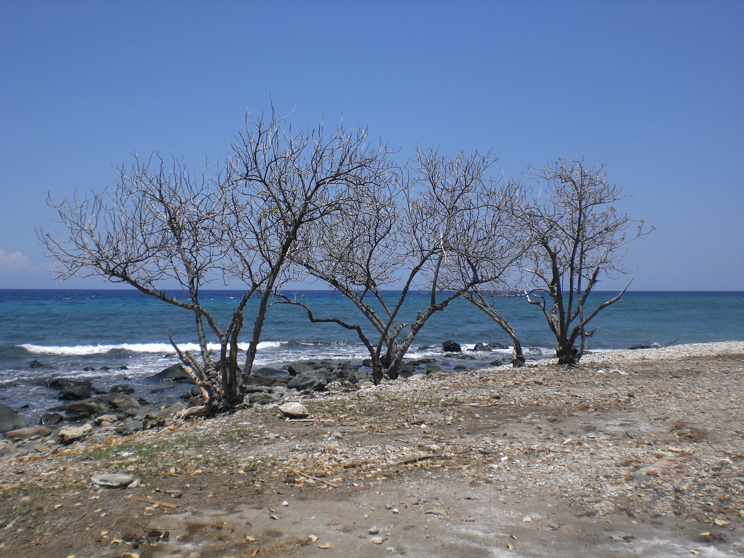 The four (wind) sacred trees in the Metinaro Subdistrikt/Timor-Leste